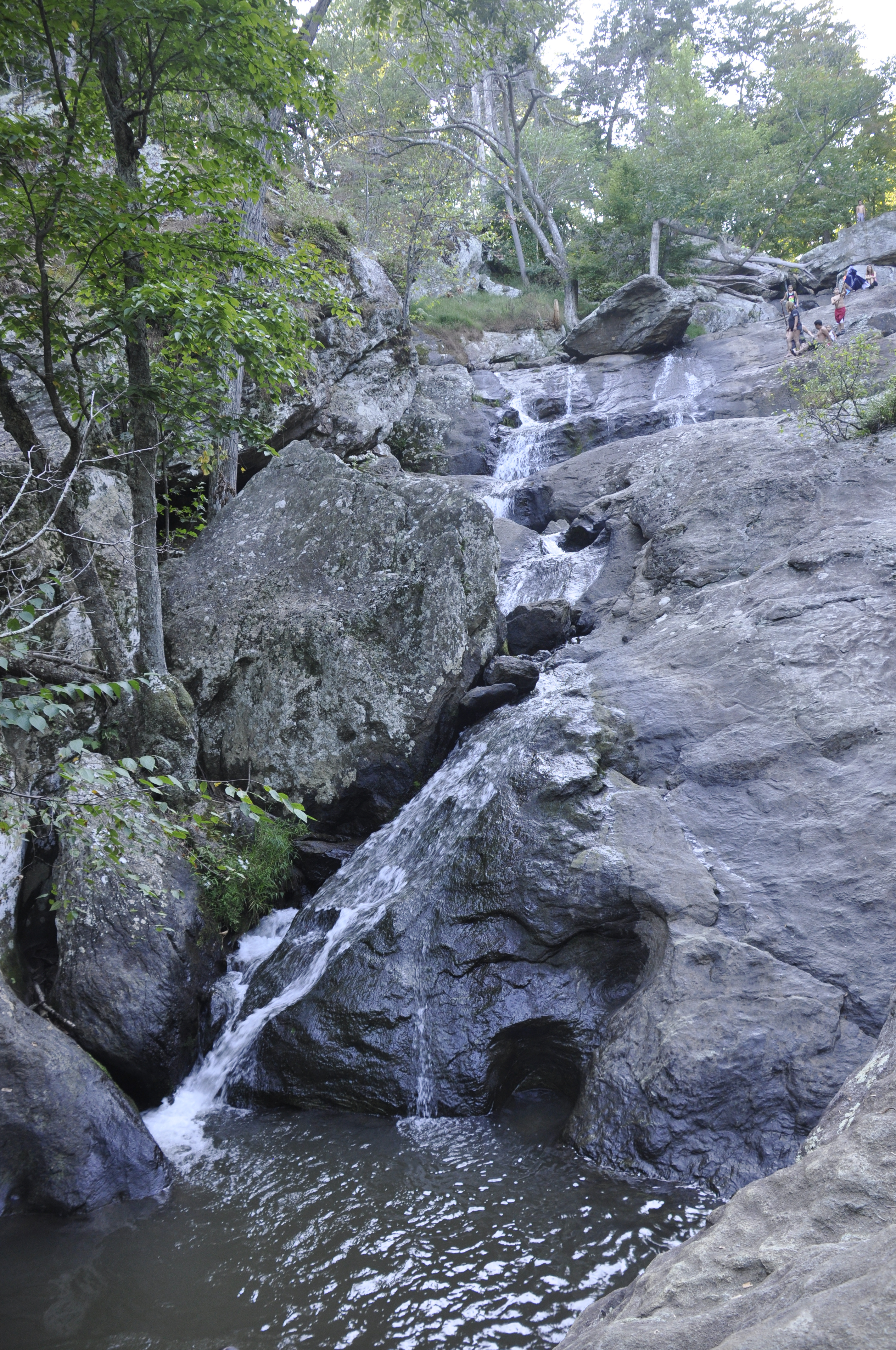 Cunningham Falls State Park: lower falls